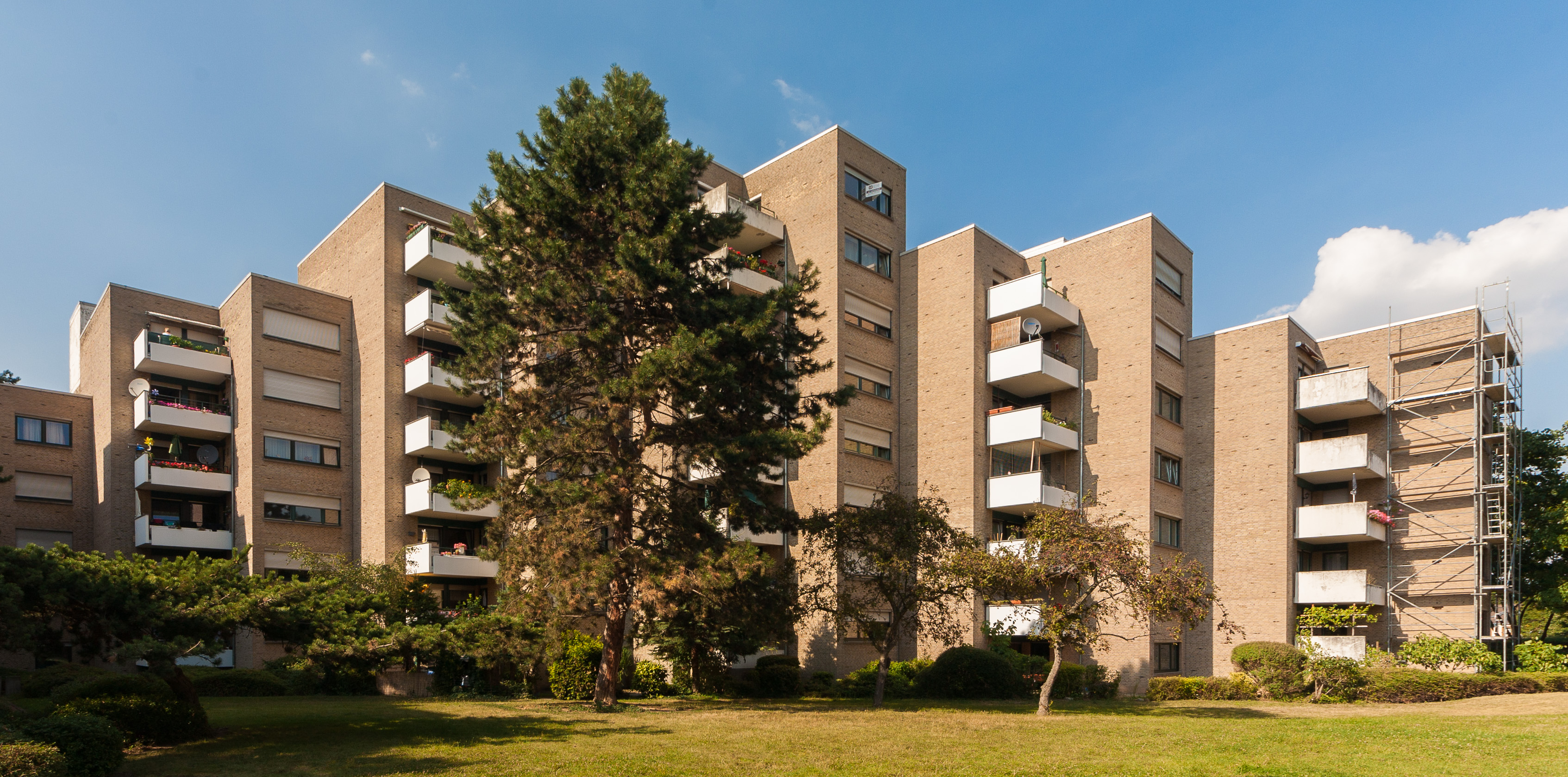 Multi-family residential at Neu-Tannenbusch, Bonn: view direction northwest